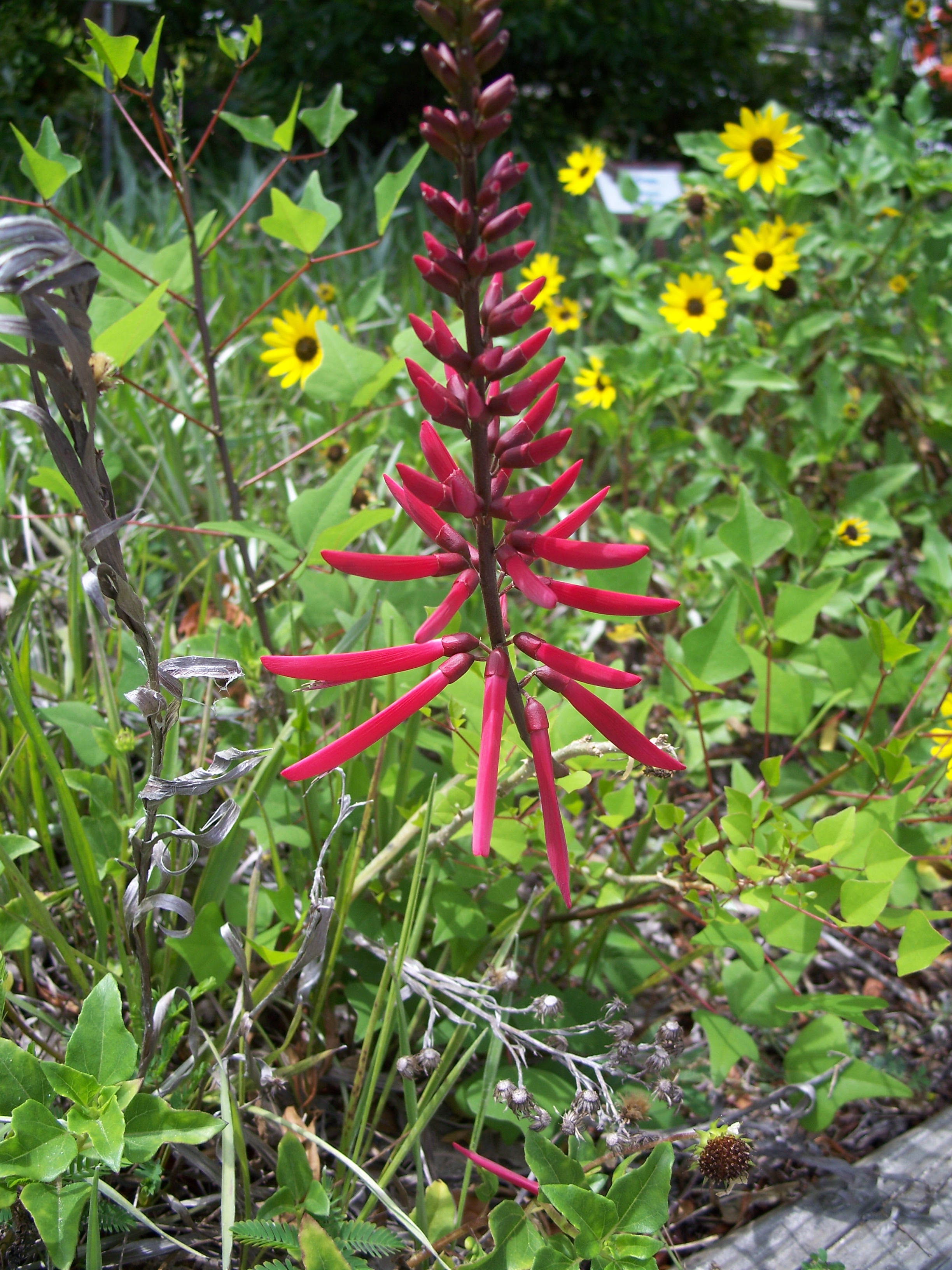 Coral bean (Erythrina herbacea) in the Crystal River Preserve State Park, in Crystal River, Florida